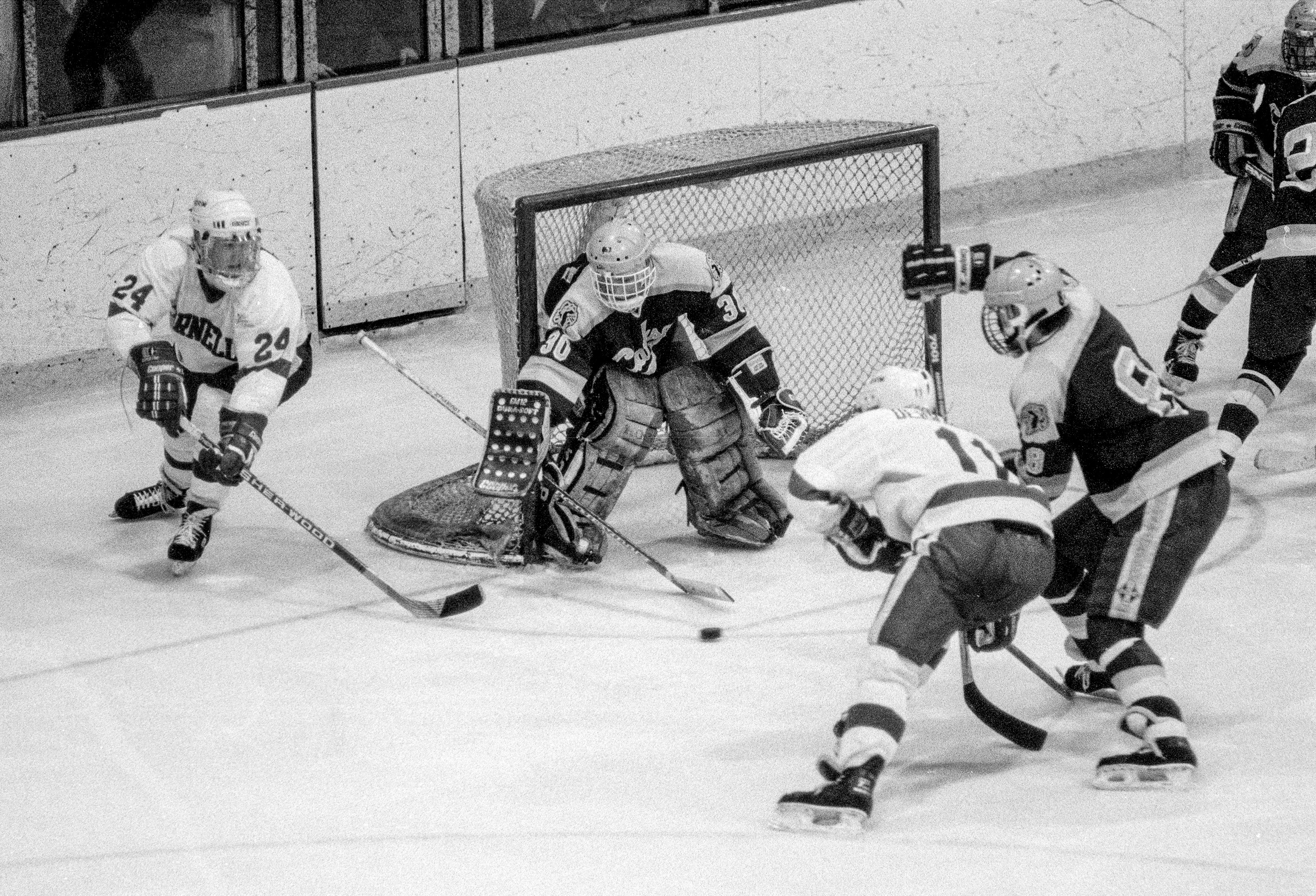 Cornell University ice hockey vs. Clarkson. Lynah Rink, Ithaca, NY. Likely date November 21, 1987.